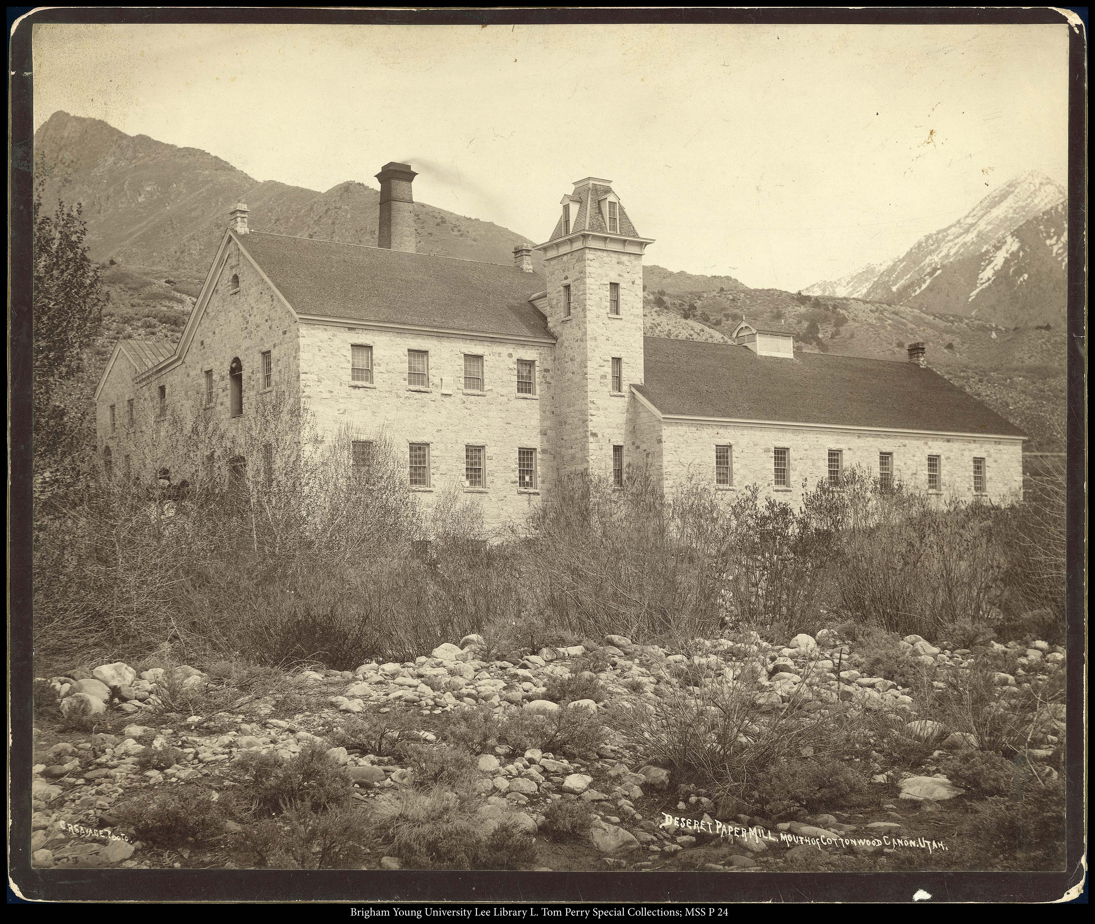 A large brick building in the hills of Cottonwood Canyon.